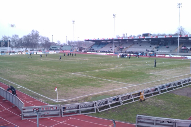 The interior of Fredriksskans in Kalmar, Sweden